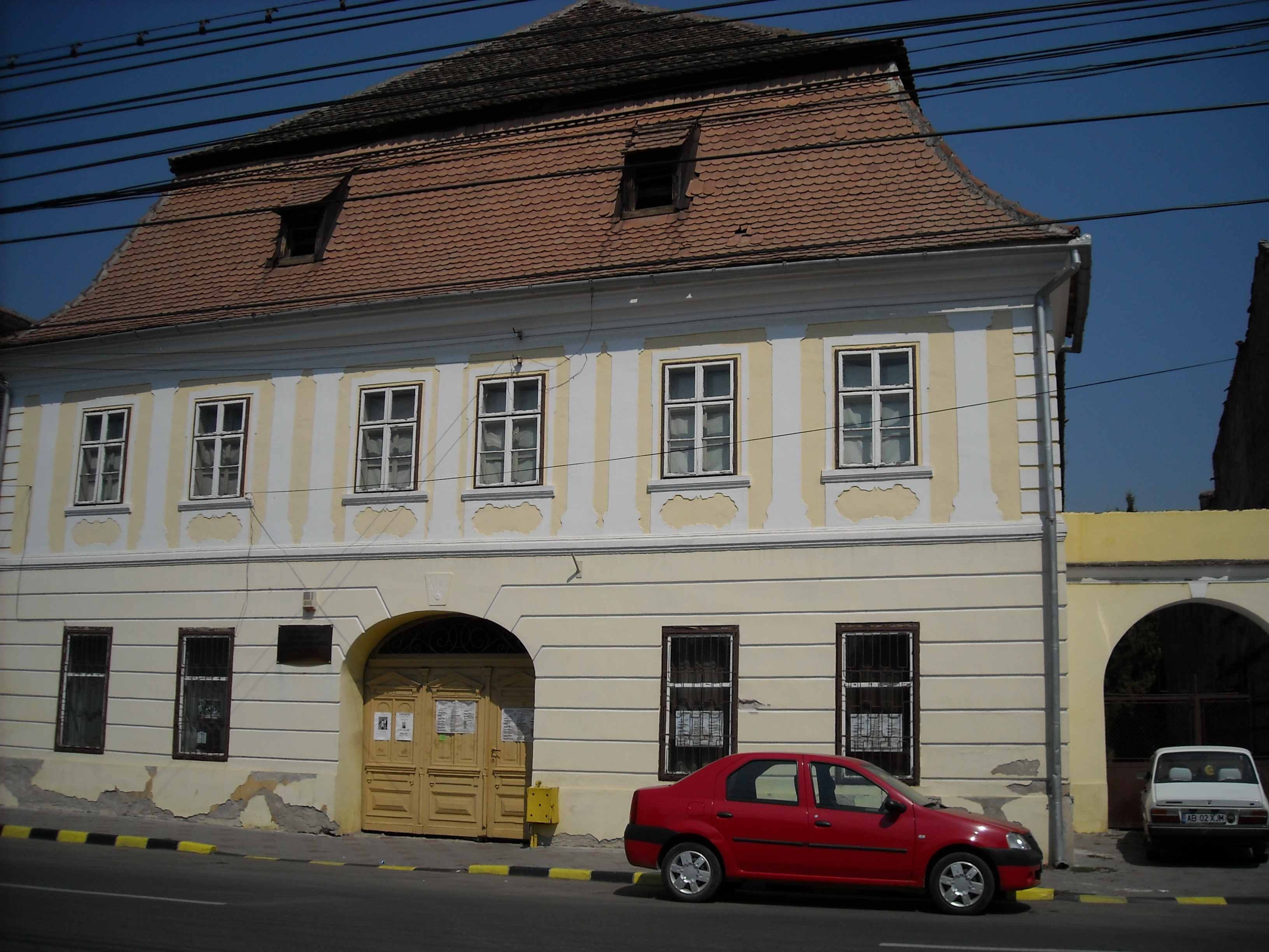 the Zapolya-building (Königshaus) in Sebeş (Mühlbach, Szászsebes)